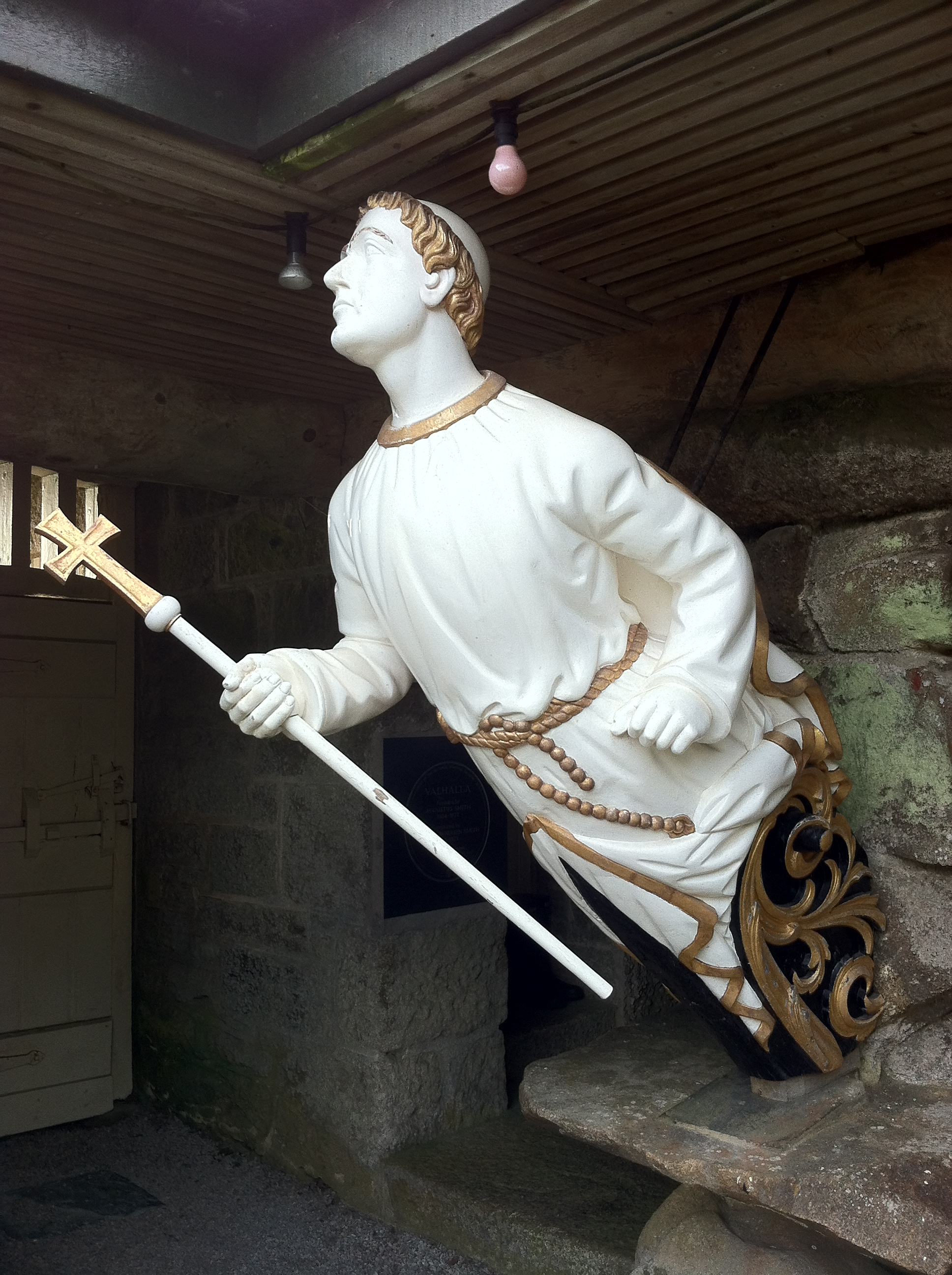 In December 1863 the Liverpool tea-clipper Friar Tuck was sheltering in St. Mary's Roads, Isles of Scilly, when hurricane-force winds drove it onto Newford Island. Chinese geese which live on Tresco today are descendants of those that came ashore from this wreck. In the Valhalla Museum in Tresco Abbey Gardens, Isles of Scilly.